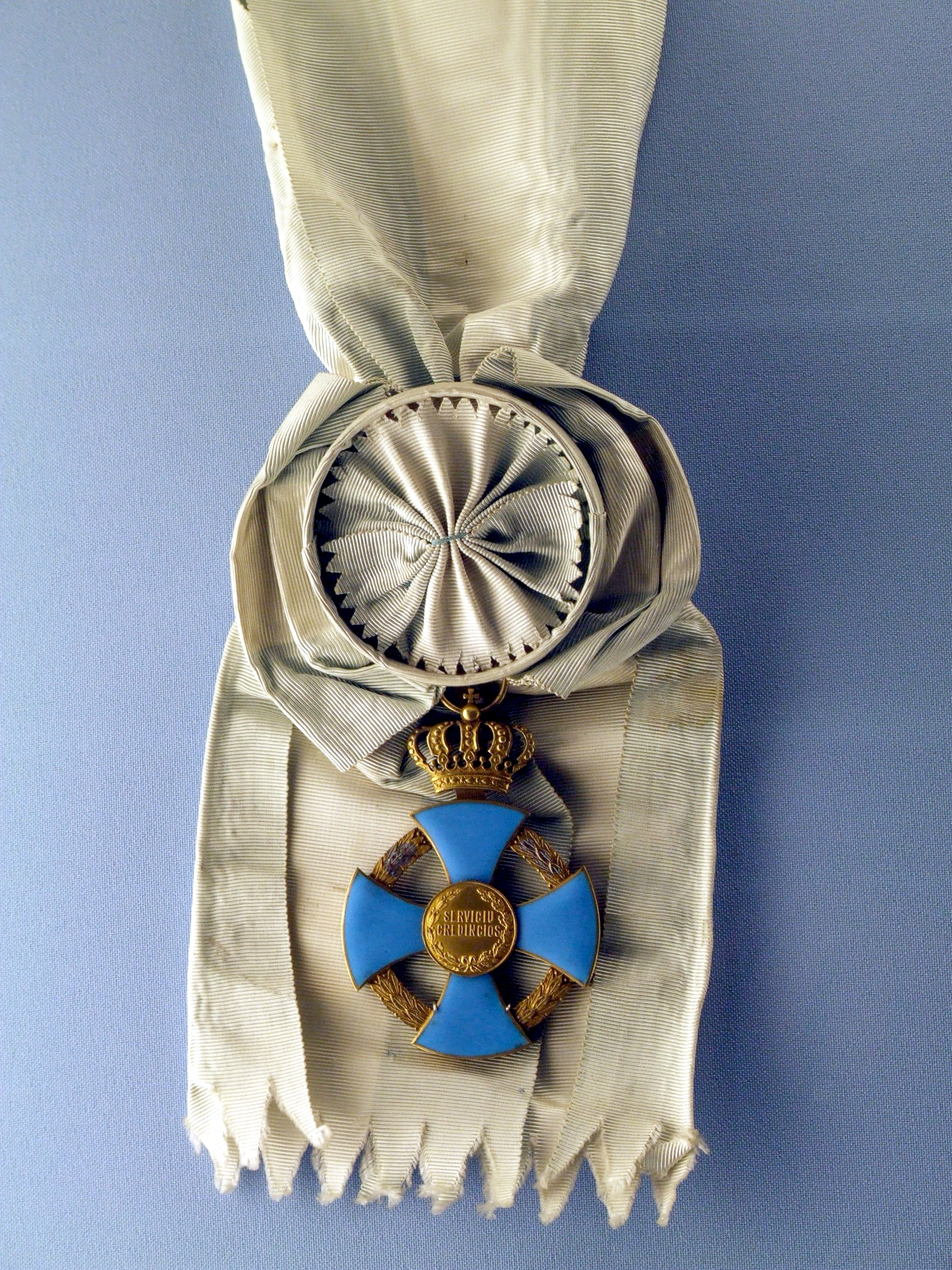 Order For Merit (Romania, 1933 y.), Badge of the 1st Class, Army Museum Žižkov